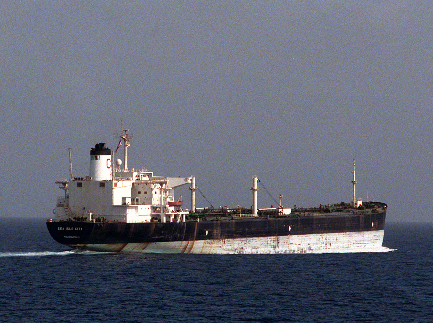 DN-SC-87-11127 - A starboard quarter view of the reflagged Kuwaiti supertanker SEA ISLE CITY underway.